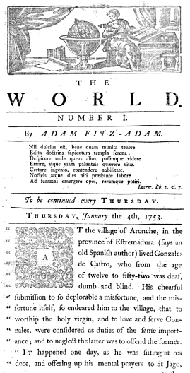 From: The World. London: R. and J. Dodsley, 1753